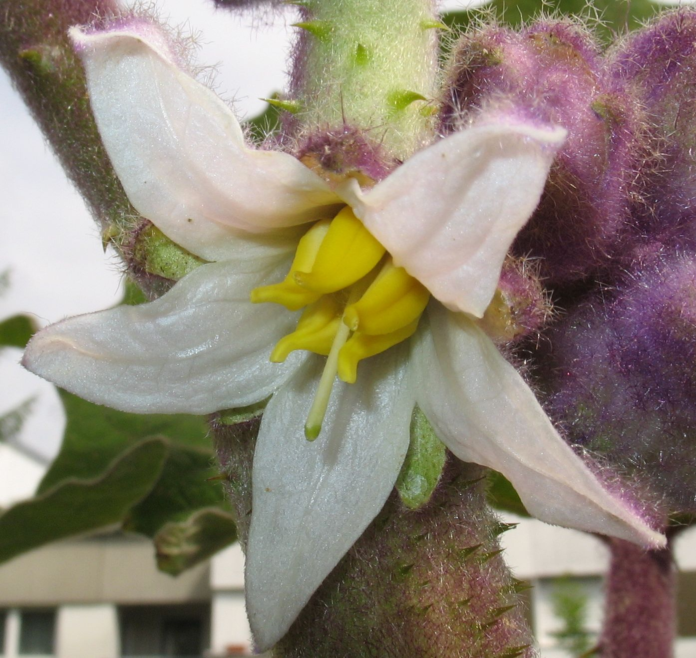 Solanum quitonense flower